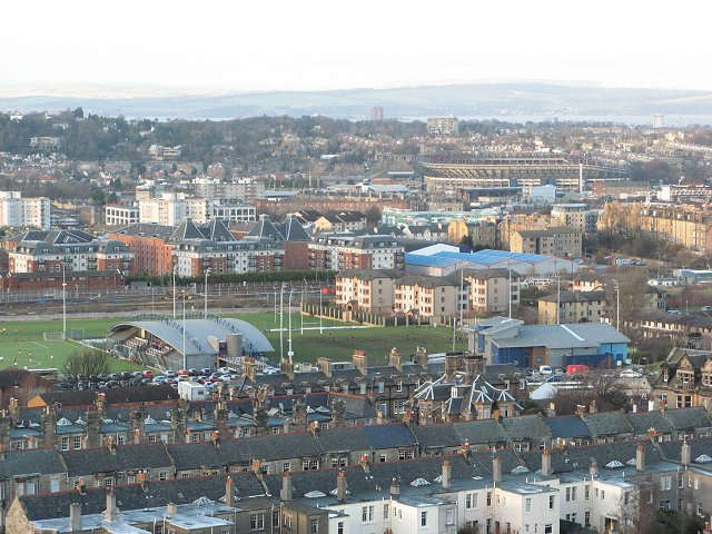 Meggetland 11 months after the last picture 106291, and Boroughmuir are getting very muddy this time. Again from Craiglockhart.